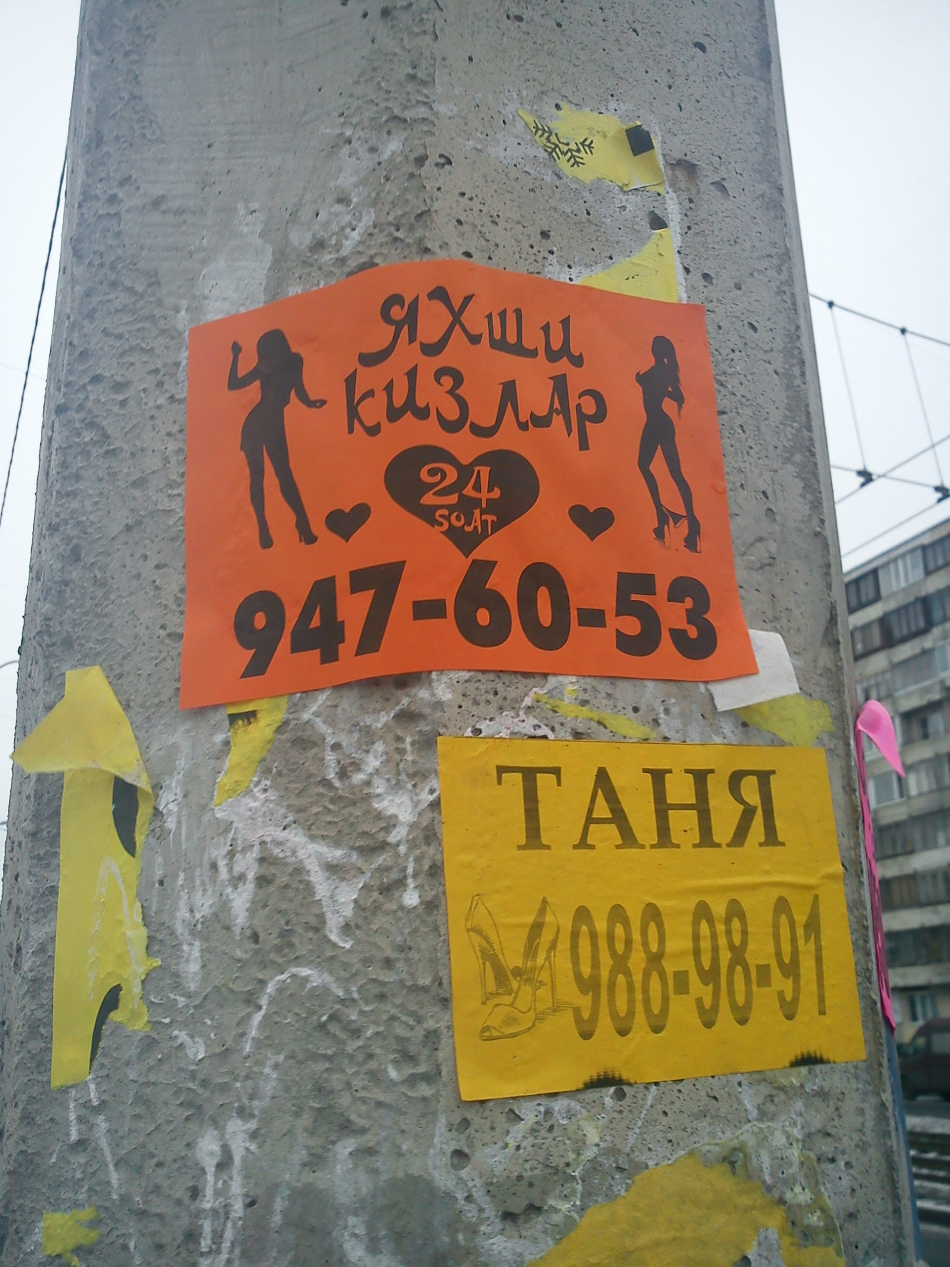 Sex advertisement in Saint-Petersburg. Sentence is translated from Uzbek as "Good girls for 24 hours"